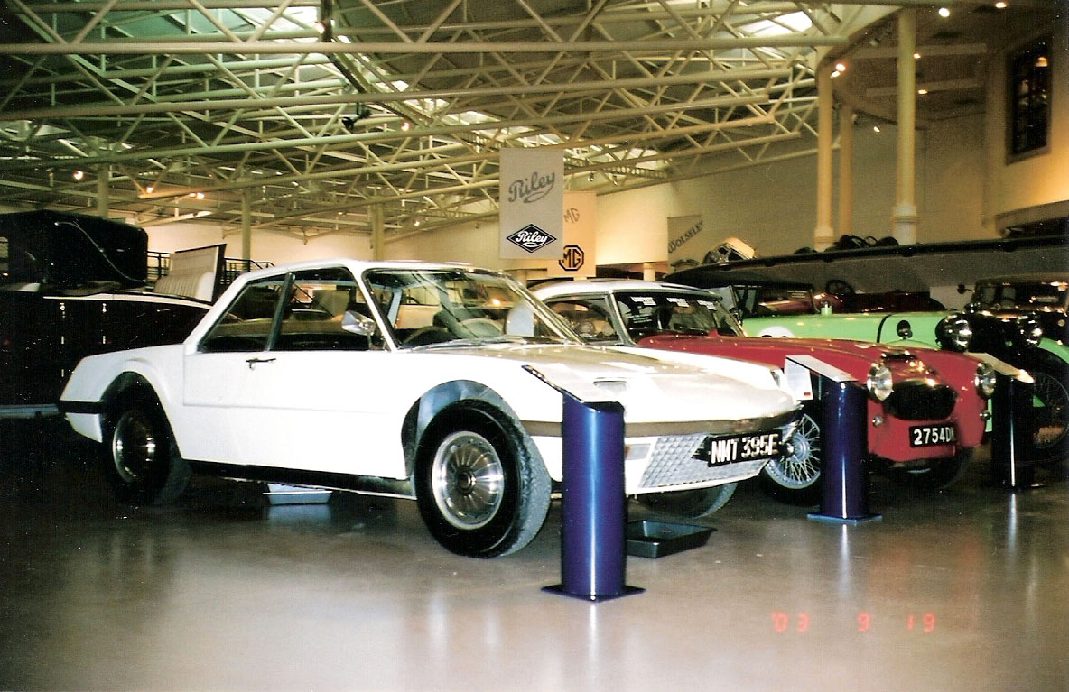 Rover P6BS concept (also called Leyland Eight GE). Taken in 2003 at the Heritage Motor Centre in Gaydon. Unfortunately poor quality due to cheap film camera then transfer to CD.